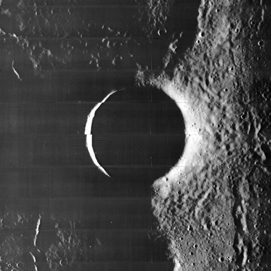 Hevelius D crater, east of Hevelius, on the moon, at the lunar terminator.